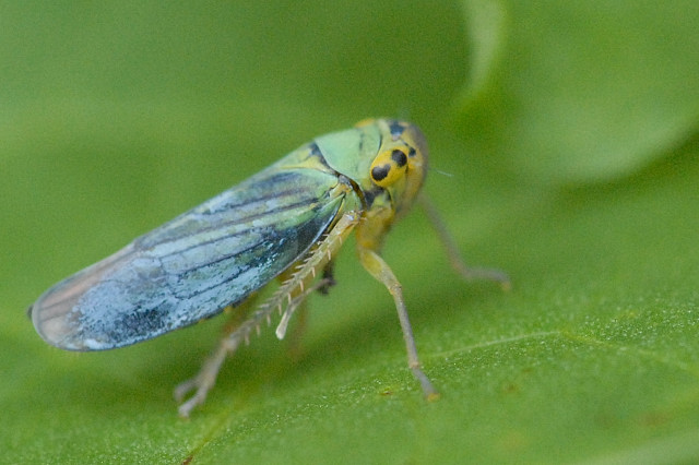 Picture taken in Commanster, Belgian High Ardennes . Species: Cicadella viridis male